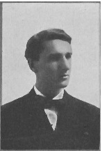 Senior portrait of California architect Edwin Lewis Snyder, designer of the Roy O. Long and the Berkeley Community YWCA buildings.